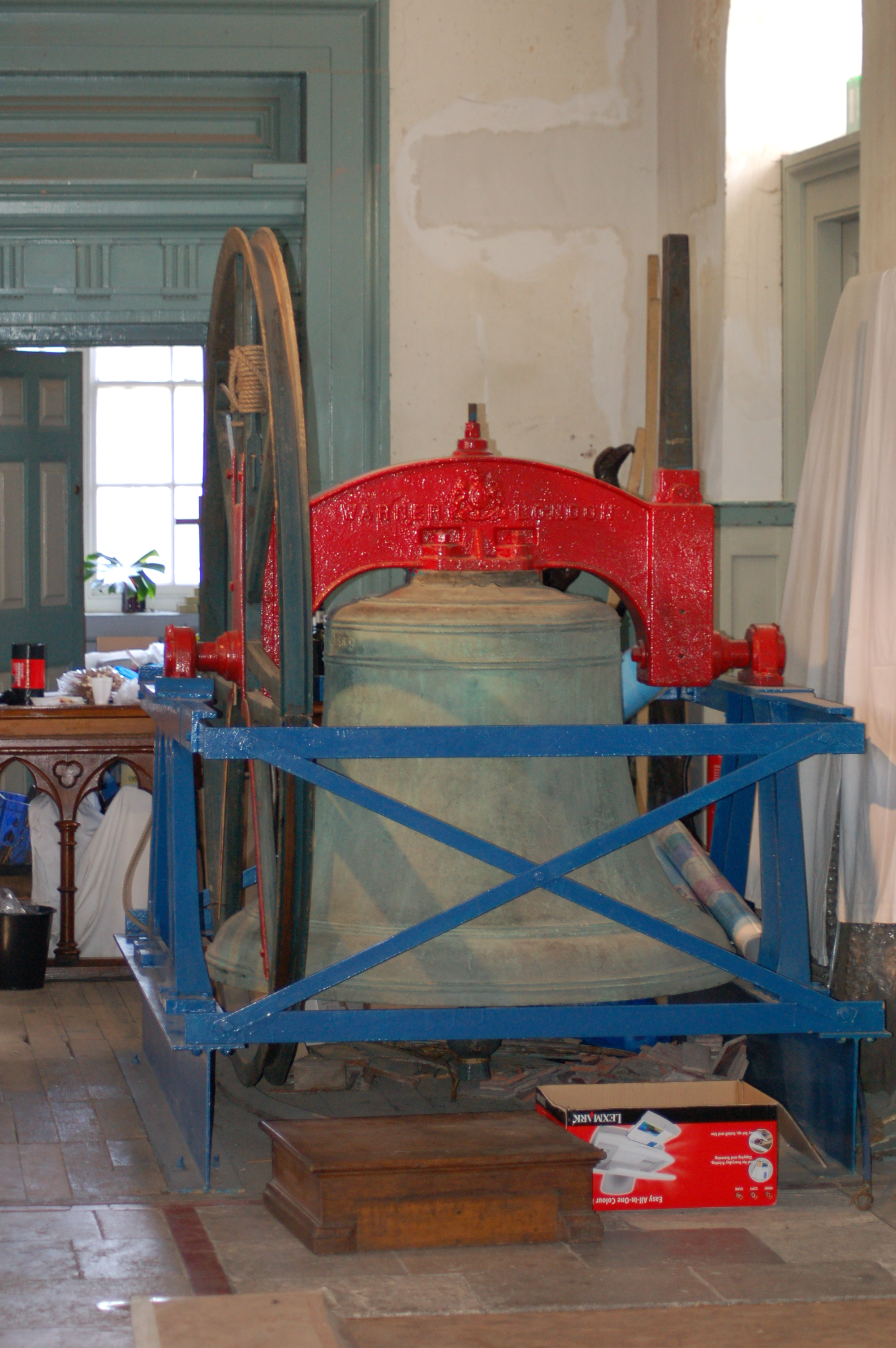 A bell of St Leonard' parish church, Shoreditch, London, removed for maintenance.